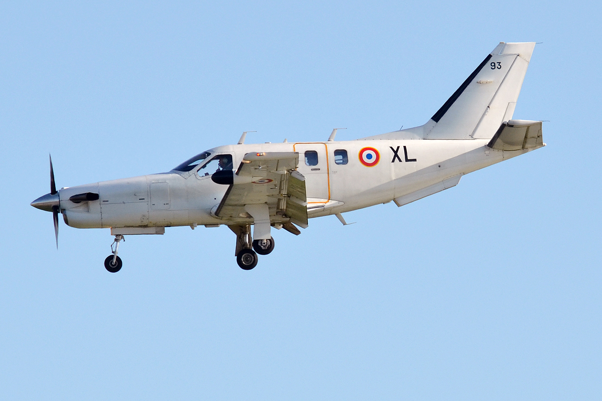 French Air Force, F-RAXL, Socata TBM700